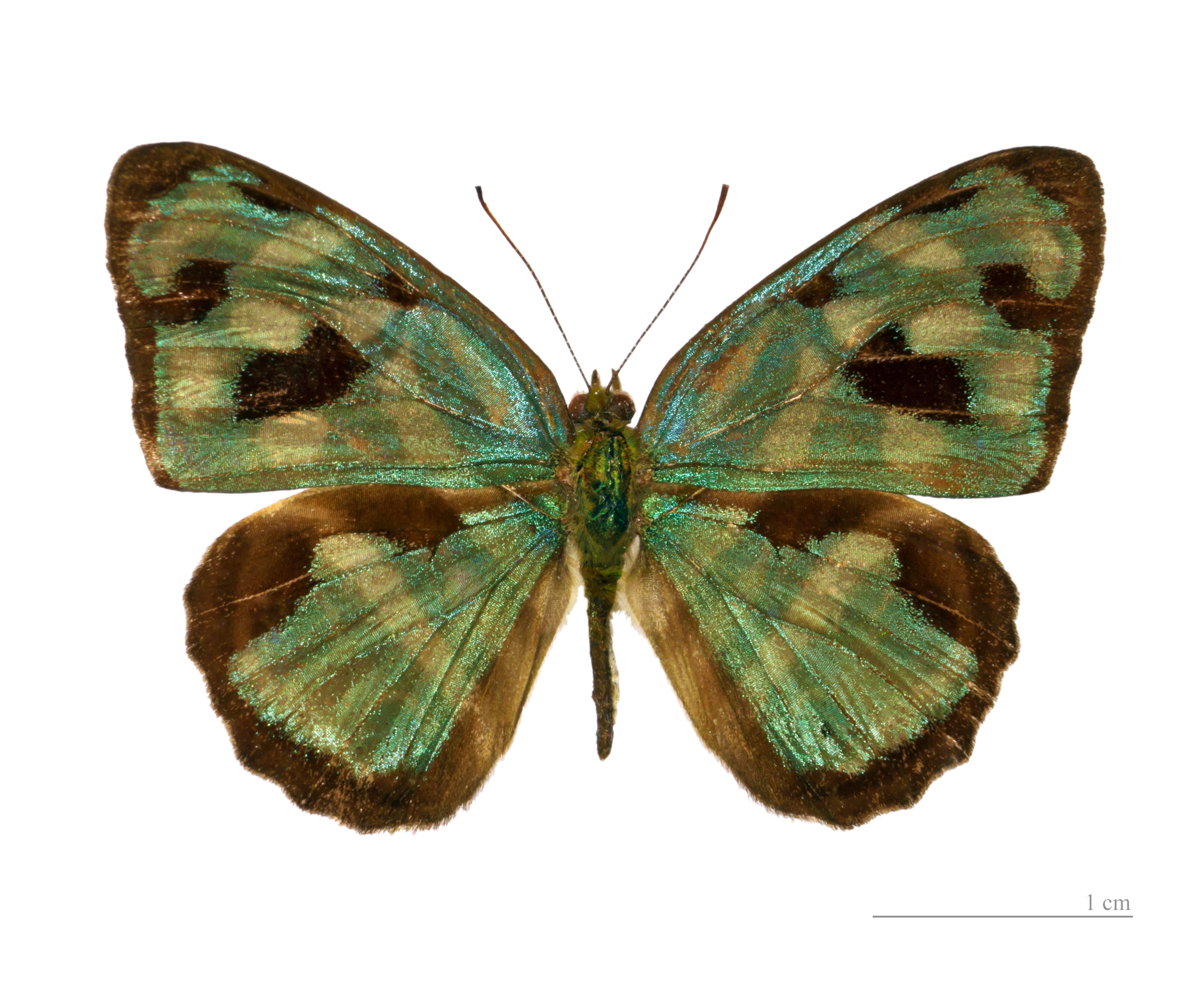 ♂ - Dorsal side Locality : Cayenne, Trail Rorota, French Guiana.